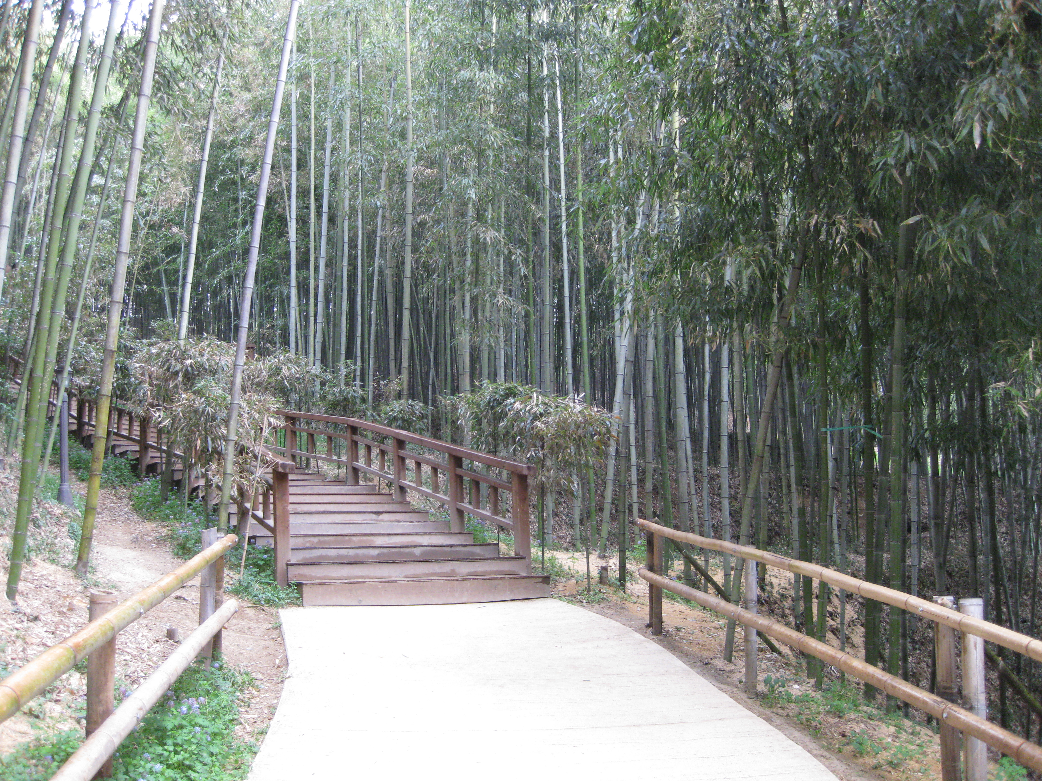 Damyang is synonymous for bamboo in Korea. This small town near Gwangju has a variety of bamboo forests and is home to the country?s bamboo handicraft production. Home to the Bamboo Museum of Korea were you can discover the multiple uses of bamboo, its by-products as well as many items made from bamboo. For more information about living and working in Korea visit our website and checkout the ?Thinking of Coming to Korea Section? it works pretty well once you?re here as well with cultural postings from the Korea Tourism Organization. Photo by Kim Palmer